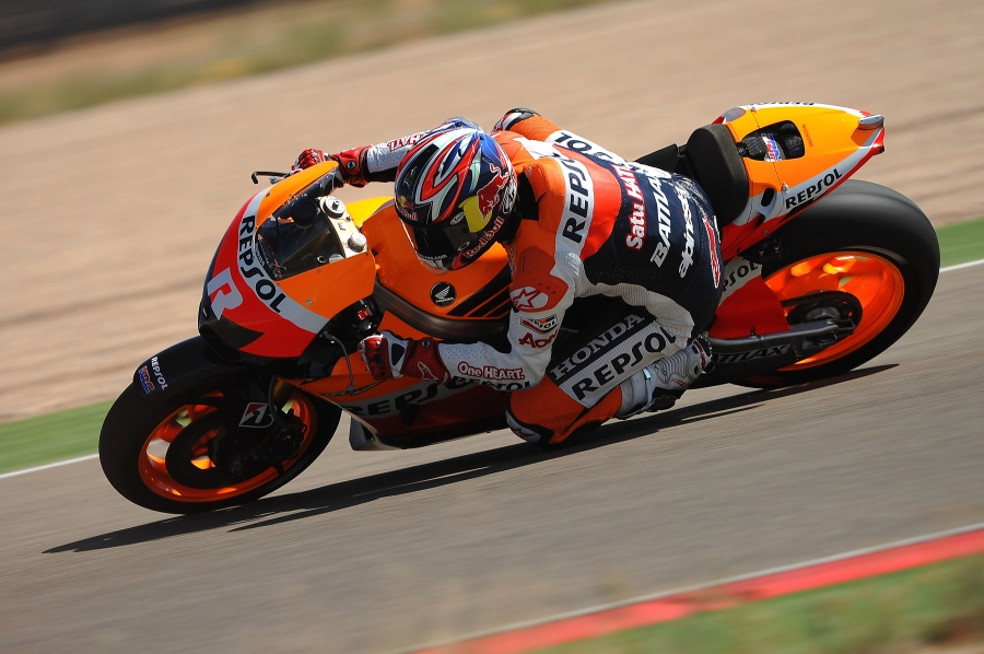 Jonathan Rea races his motorcycle at Test MotoGP Aragón 2012